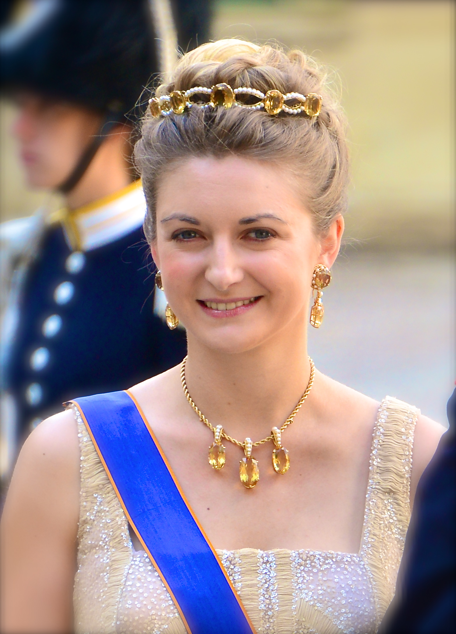 Stéphanie, Hereditary Grand Duchess of Luxembourg on the way to the castle church at the Royal Palace in Stockholm before the wedding between Princess Madeleine and Christopher O'Neill June 8, 2013.